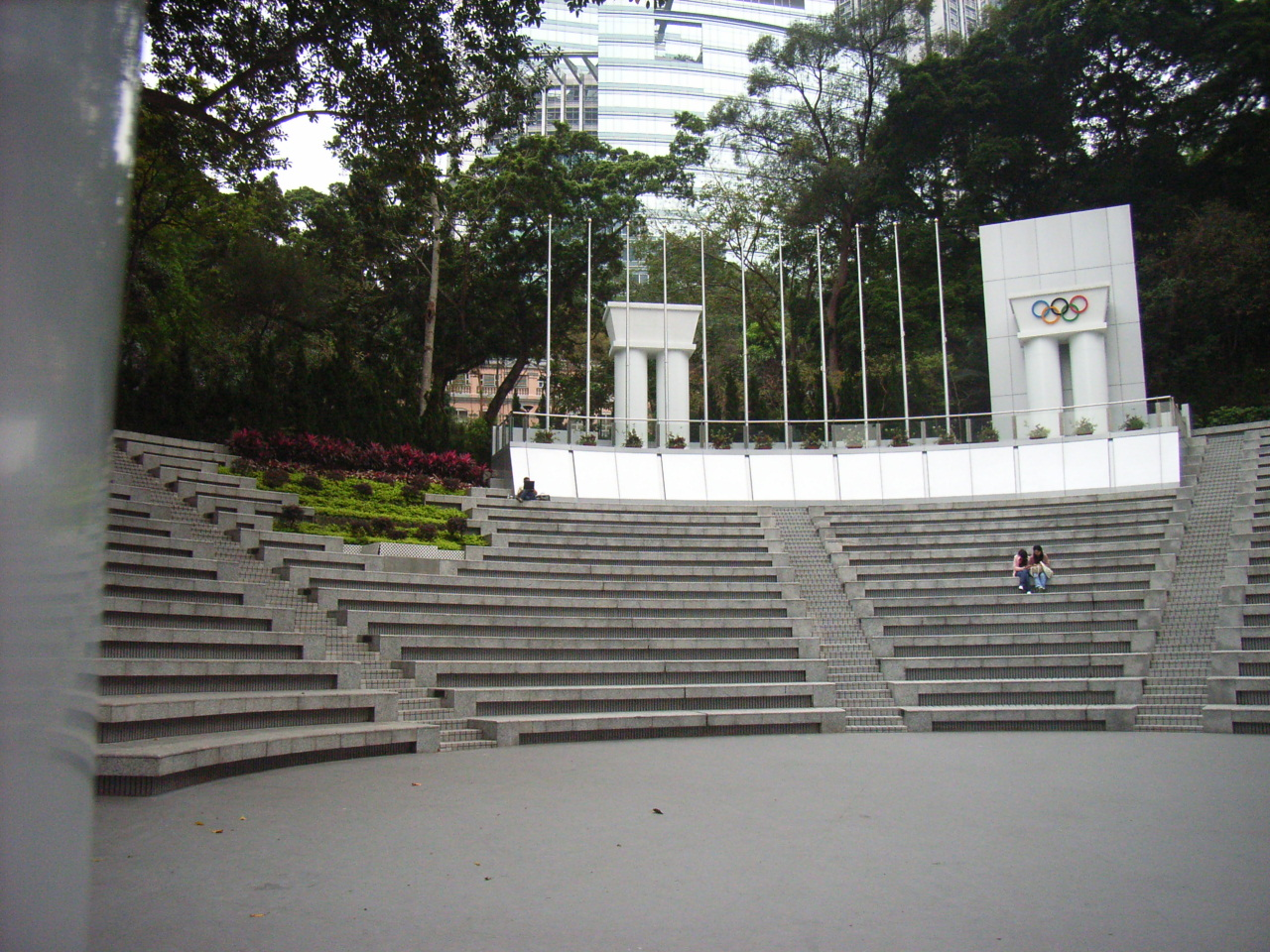 Olympic Square 奧林匹克廣場, Hong Kong Park